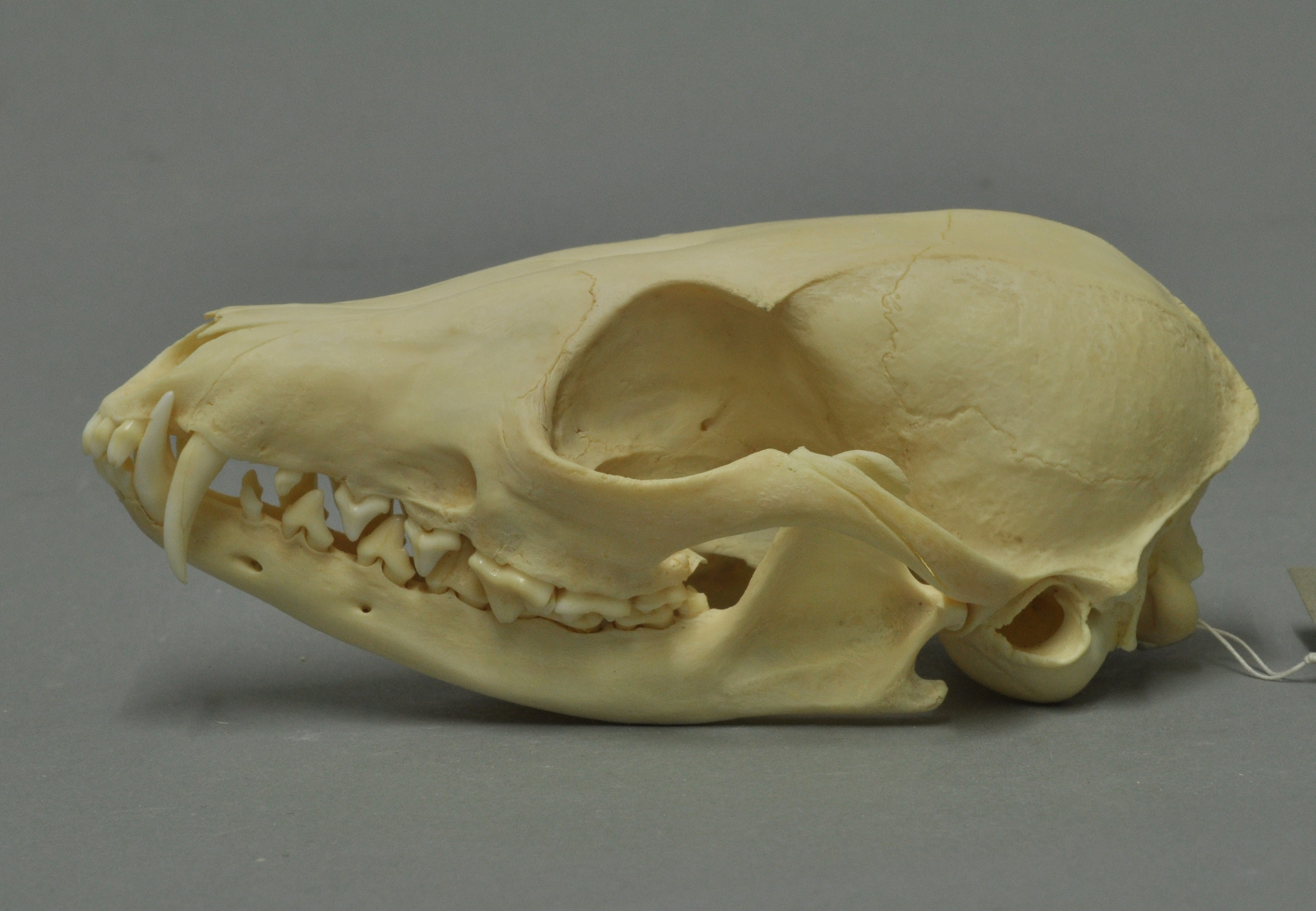 Cape foxVulpes chama , skull, Coll. Museum Wiesbaden